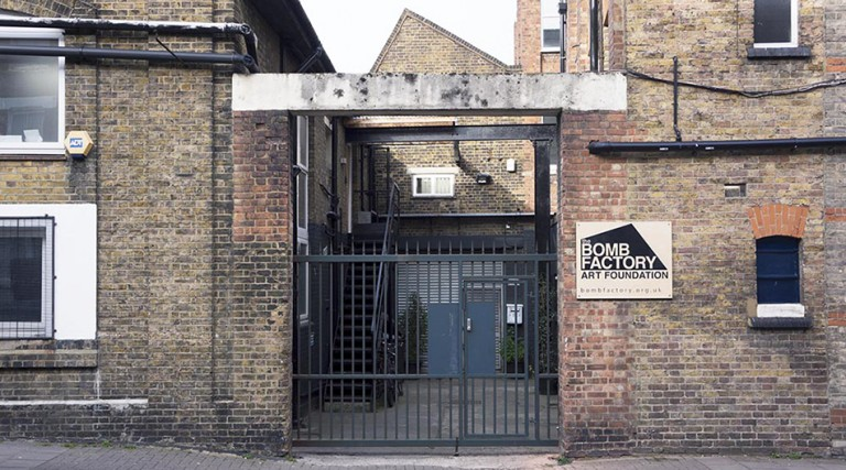 Entrance to The Bomb Factory Art Foundation in Boothby Rd, Archway, North London